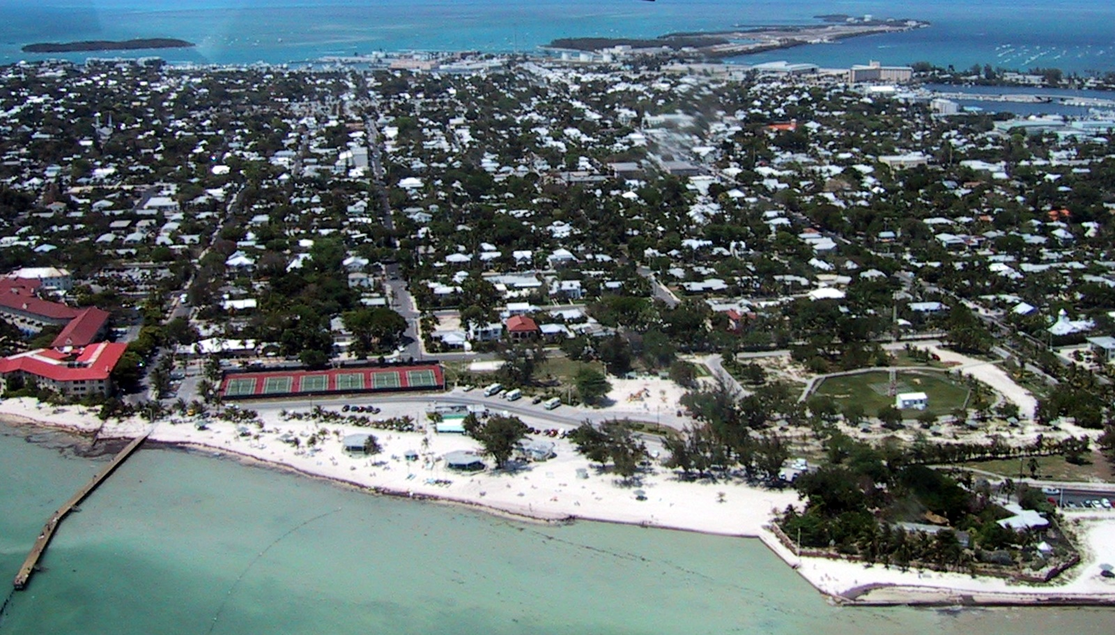 Aerial view of Key West, looking north.